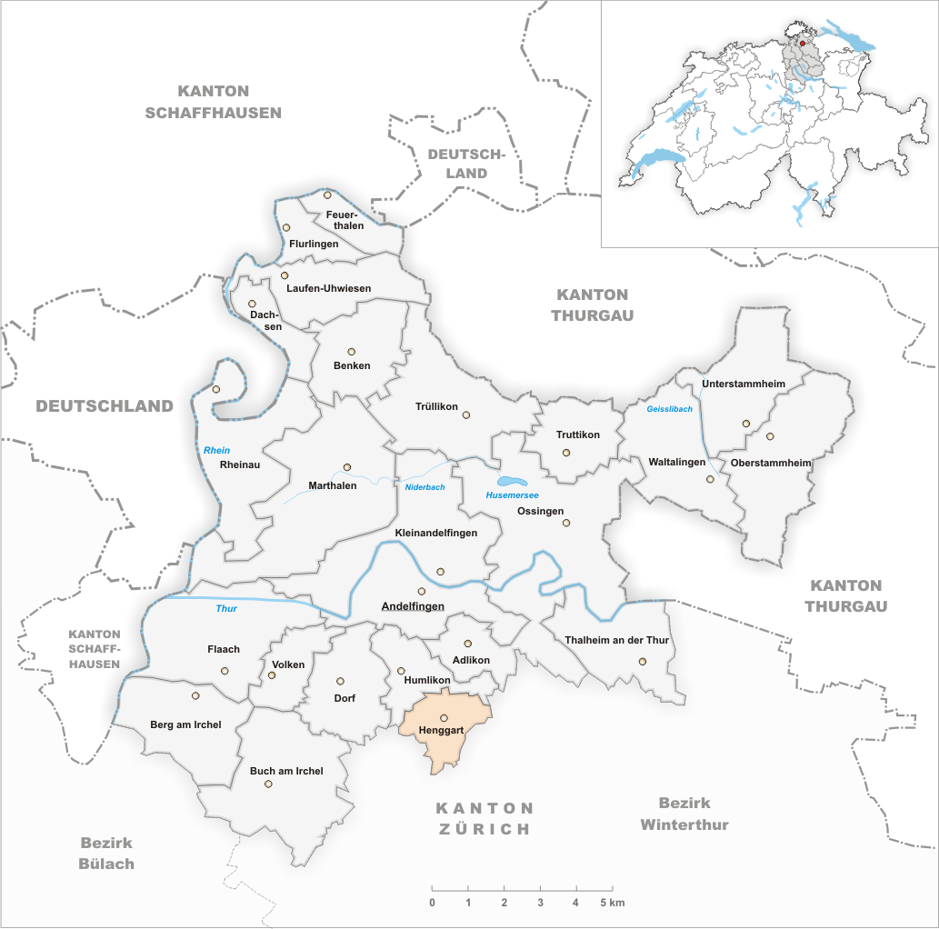 Municipality Henggart